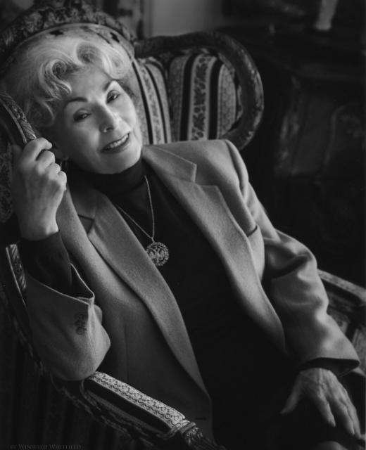 Kyra relaxing at home.